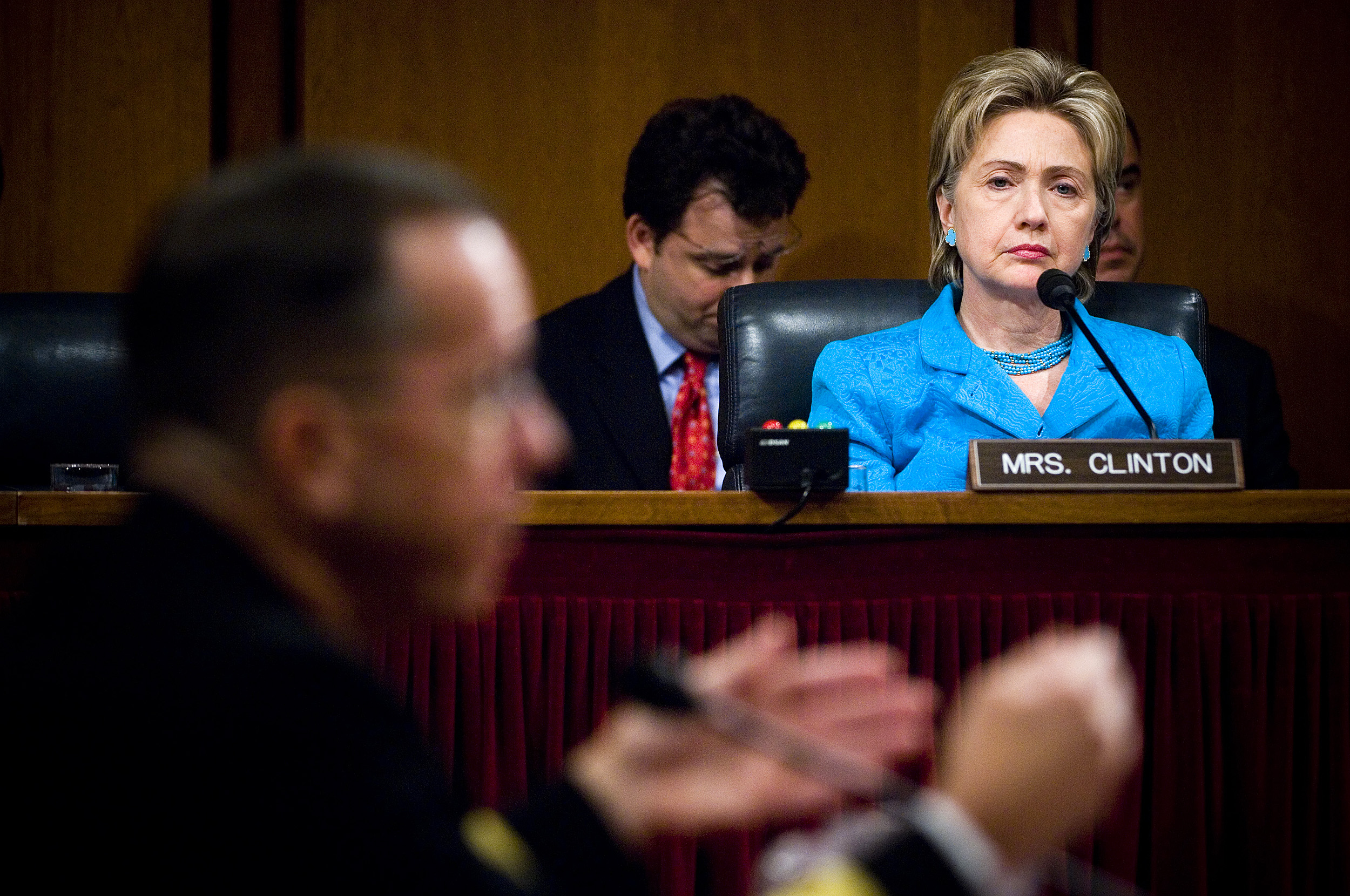 Hillary Clinton listens as Chief of Naval Operations Navy Mike Mullen responds to a question during his confirmation hearing in front of the Senate Armed Services Committee for appointment to Chairman of the Joint Chiefs of Staff at the Hart Senate Office Building in Washington, D.C., July 31, 2007. DoD photo by Mass Communication Specialist 1st Class Chad J. McNeeley, U.S. Navy.